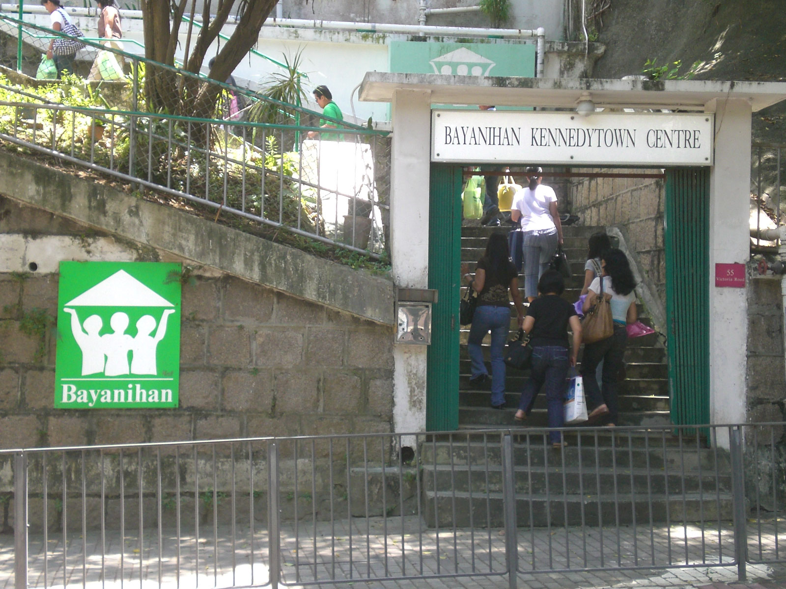 Bayanihan Kennedy Town Centre, 55 Victoria Road, Kennedy Town, Hong Kong 堅尼地城zh:域多利道55號